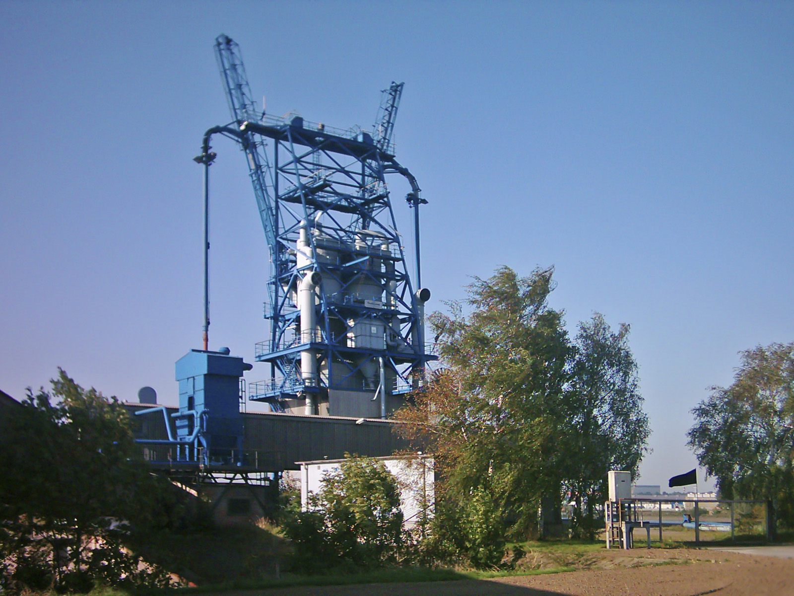 Pump, Hamburger Aluminium-Werk (HAW) in Hamburg, Germany.